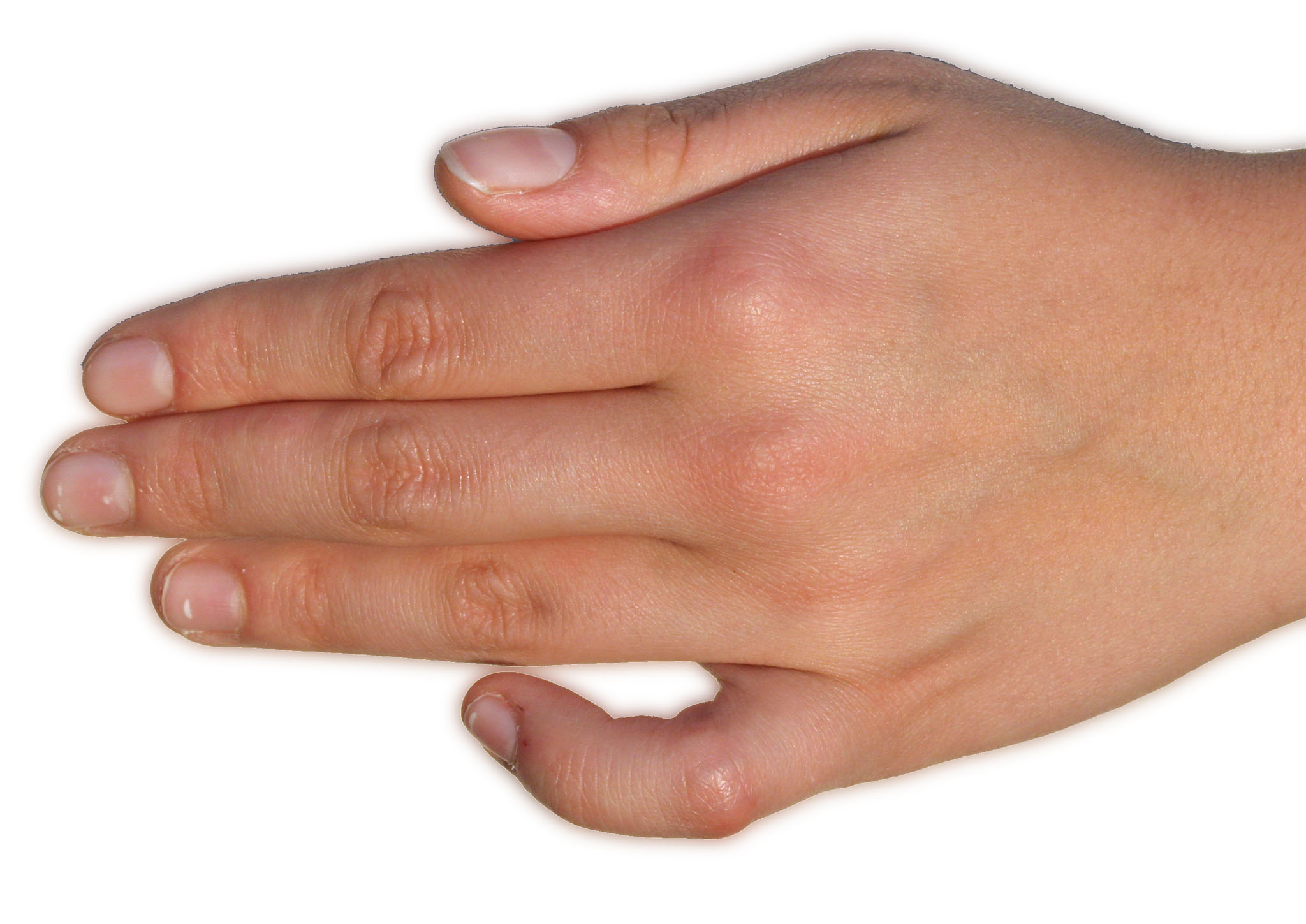 Seventeen year old girl with Camptodactylie.